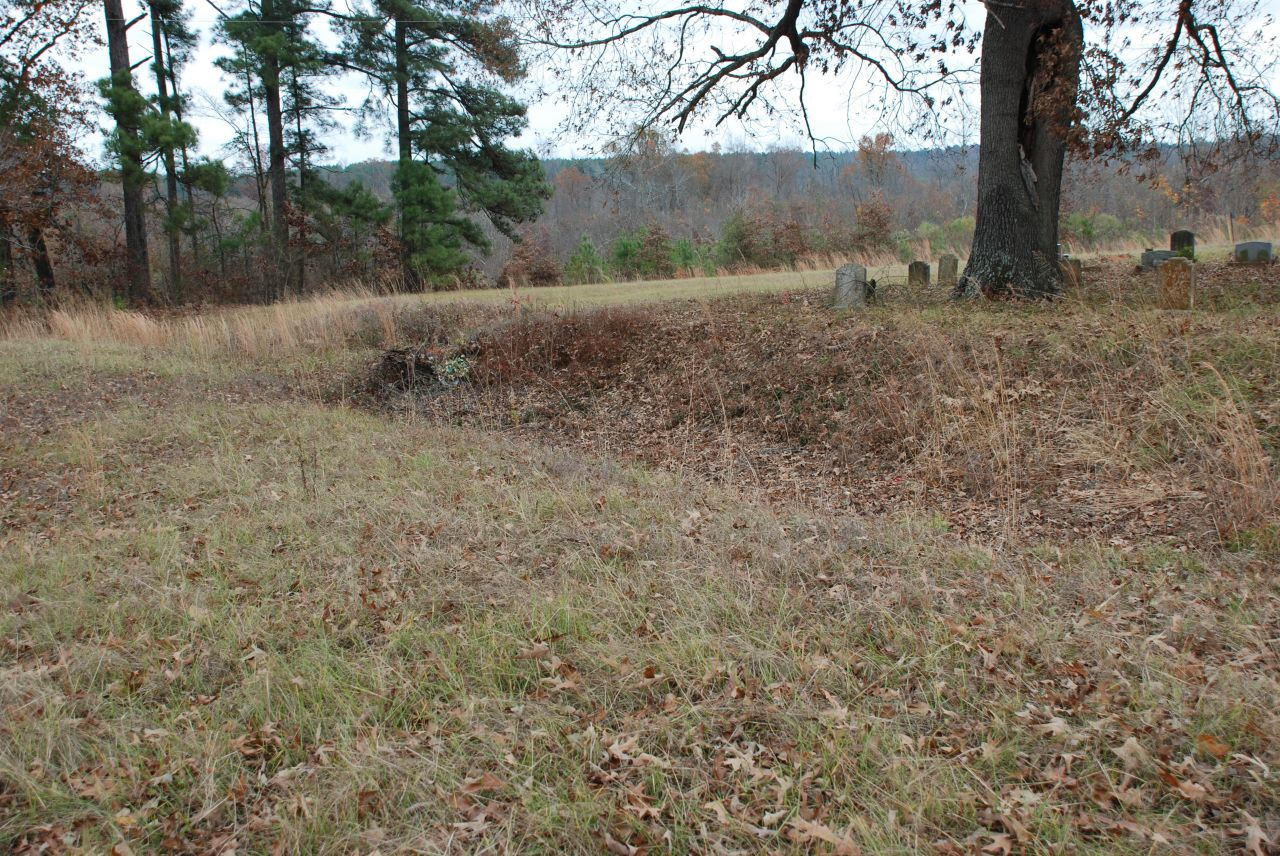 Dooley's Hill Cemetery in Hempstead County, Arkansas, near the former site of Dooley's Ferry across the Red River. Civil War trenches run through the cemetery.